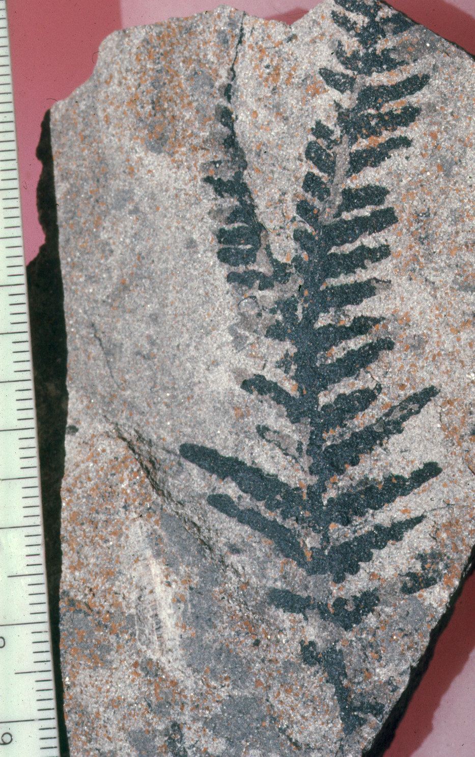 Leaf of Lepidopteris callipteroides from latest Permian Coal Cliff Sandstone in Oakdale Colliery, NSW (specimen UNEF14738 from locality UNEL1370)